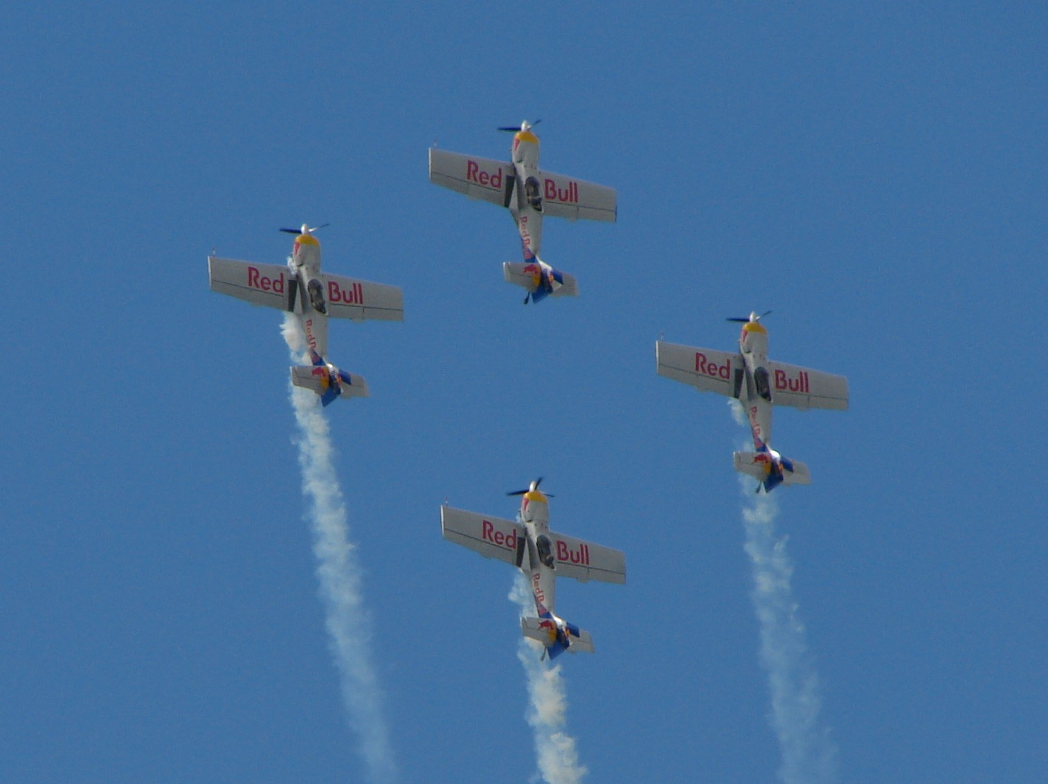 Flying Bulls Aerobatics Team during an Air Show in Krems, Austria